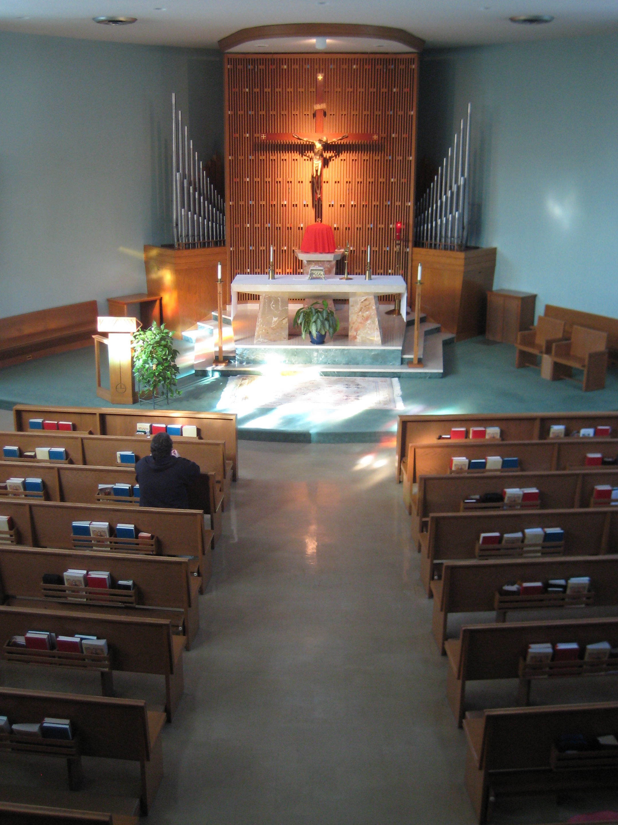 An aspiring seminarian on a vocational discernment retreat in solitary afternoon prayer before the altar of the chapel of Blessed John XXIII National Seminary in Weston, Massachusetts. February 2009 photo by John Stephen Dwyer